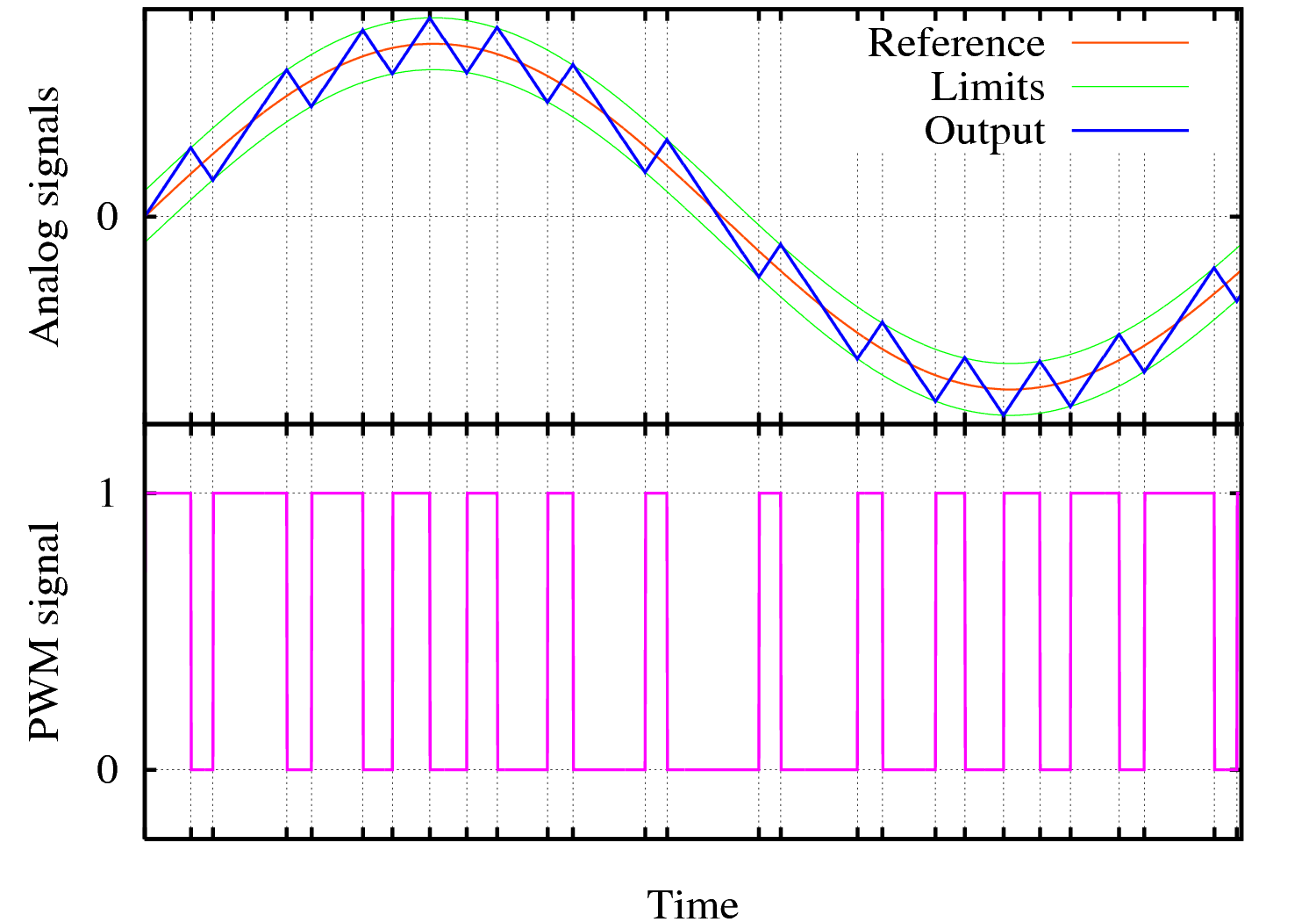 Principle of the delta Pulse Width Modulation (PWM).